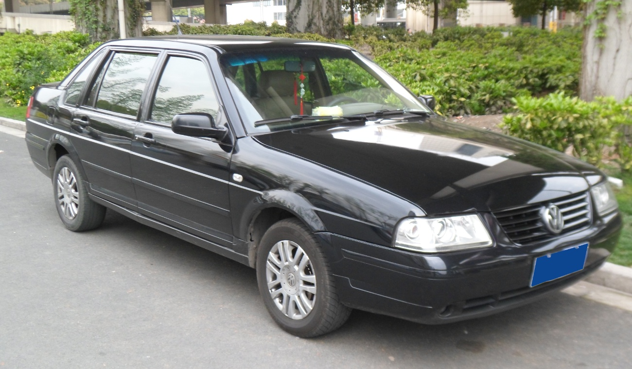 Volkswagen Santana 3000, photographed in Shanghai, China.